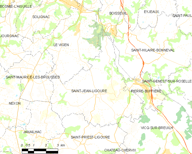 Map of French municipality Saint-Jean-Ligoure